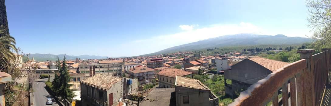 New Part of Randazzo